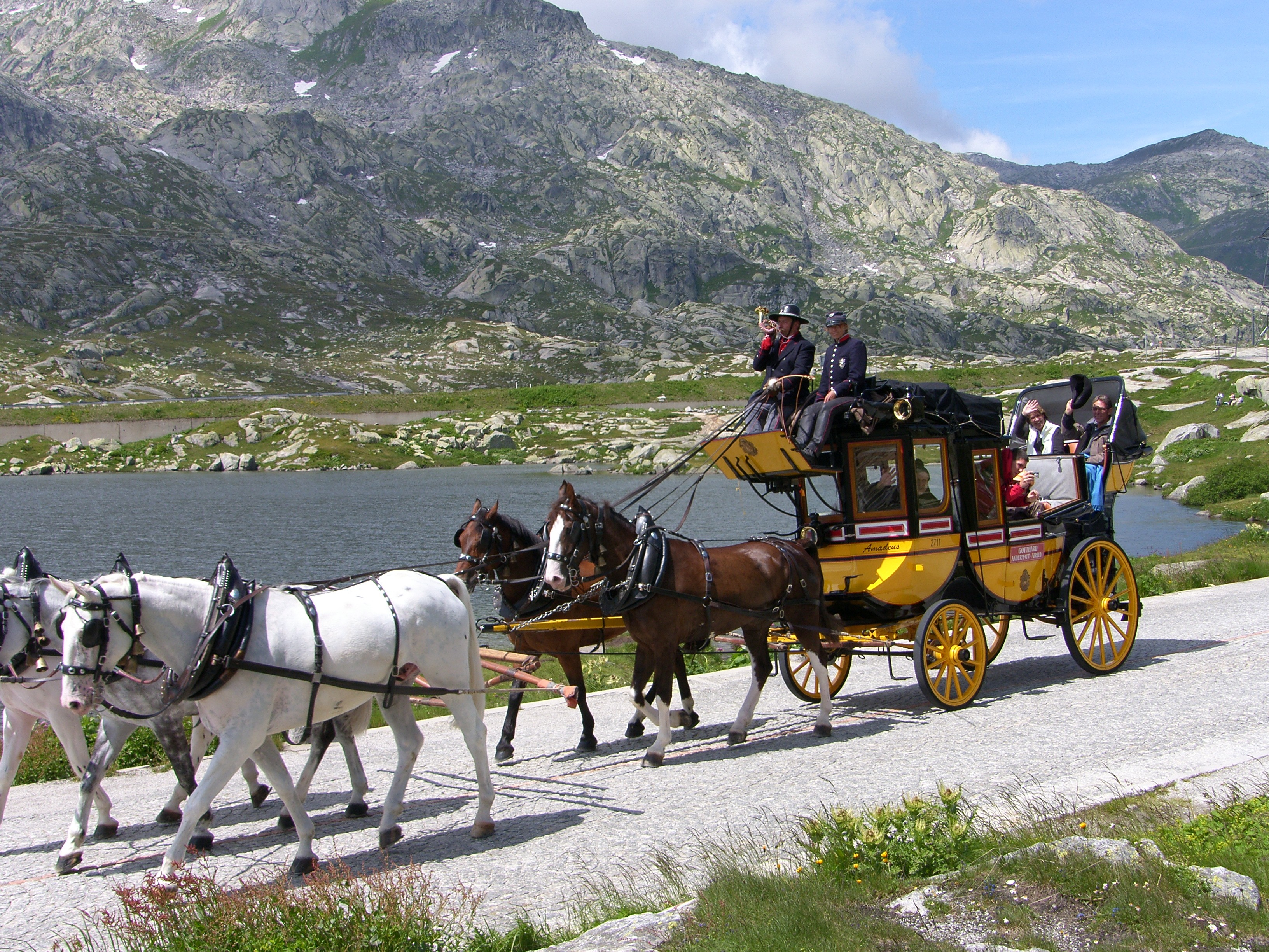 Old Gotthard post on the pass, Switzerland